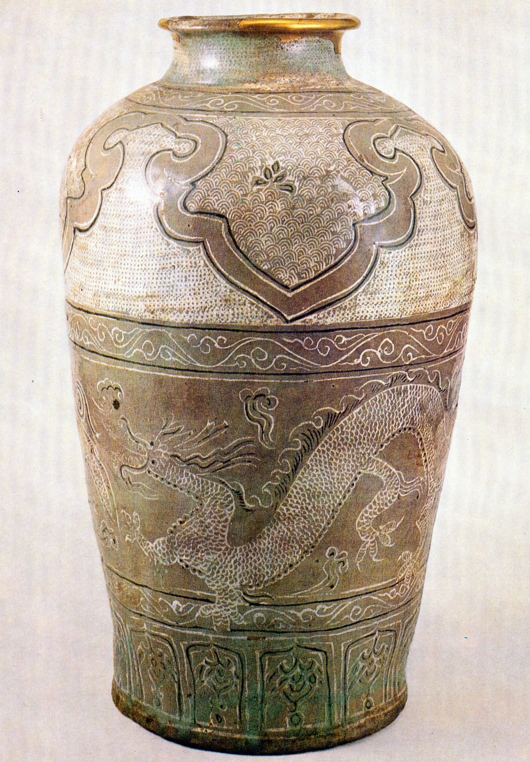 Buncheong Lidded Jar with Inlaid Cloud and Dragon Design